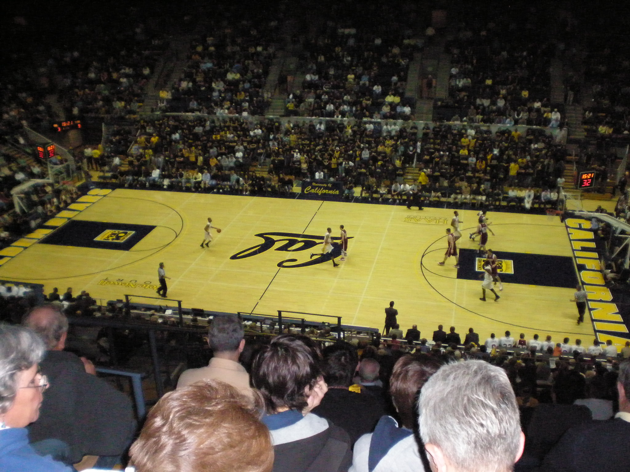 Pete Newell Court at Haas Pavilion as seen from the upper bleachers during a California Golden Bears home game against the Washington State Cougars at Haas Pavilion. The Golden Bears won 71-63.